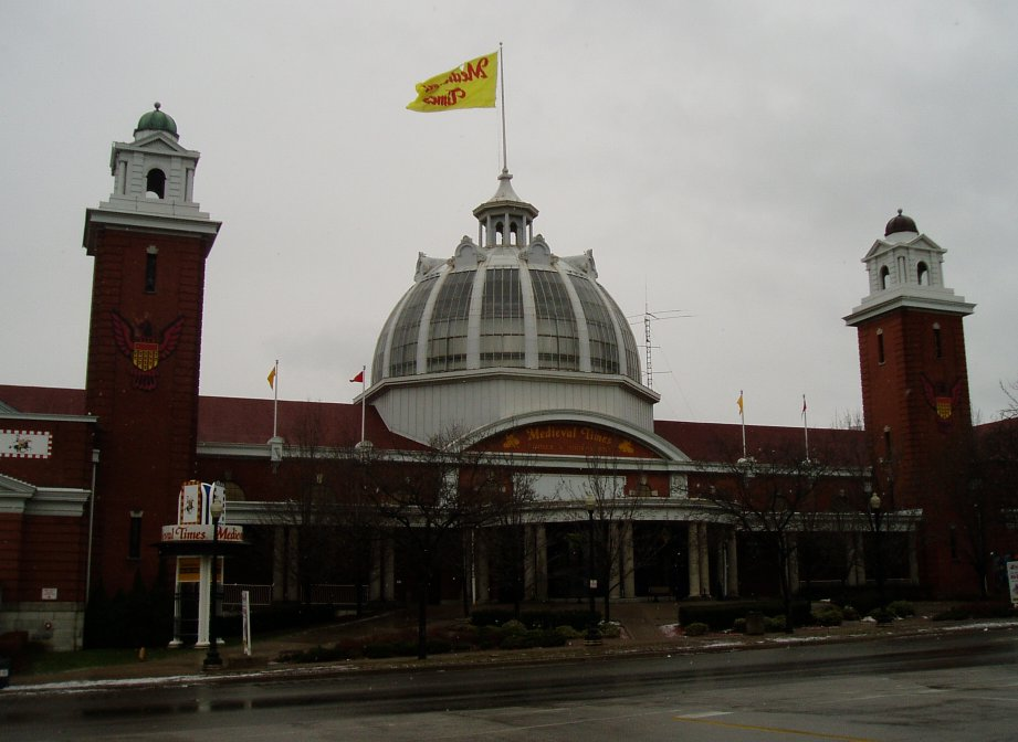 The Medieval Times Building at the Canadian National Exhibition, taken by SimonP